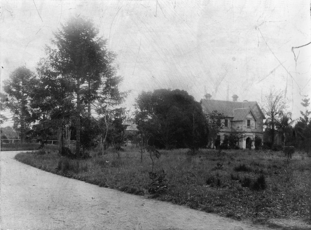 Kedron Lodge, a Kalinga residence, ca. 1914 Exterior view of Kedron Lodge, 119 Nelson Street, Kalinga. The building is an example of a Colonial Gothic house built in sandstone in the early 1880s by Christopher Potter and John Petrie for Judge Alfred James Lutwyche (1810-1880), Queensland's first Supreme Court judge.